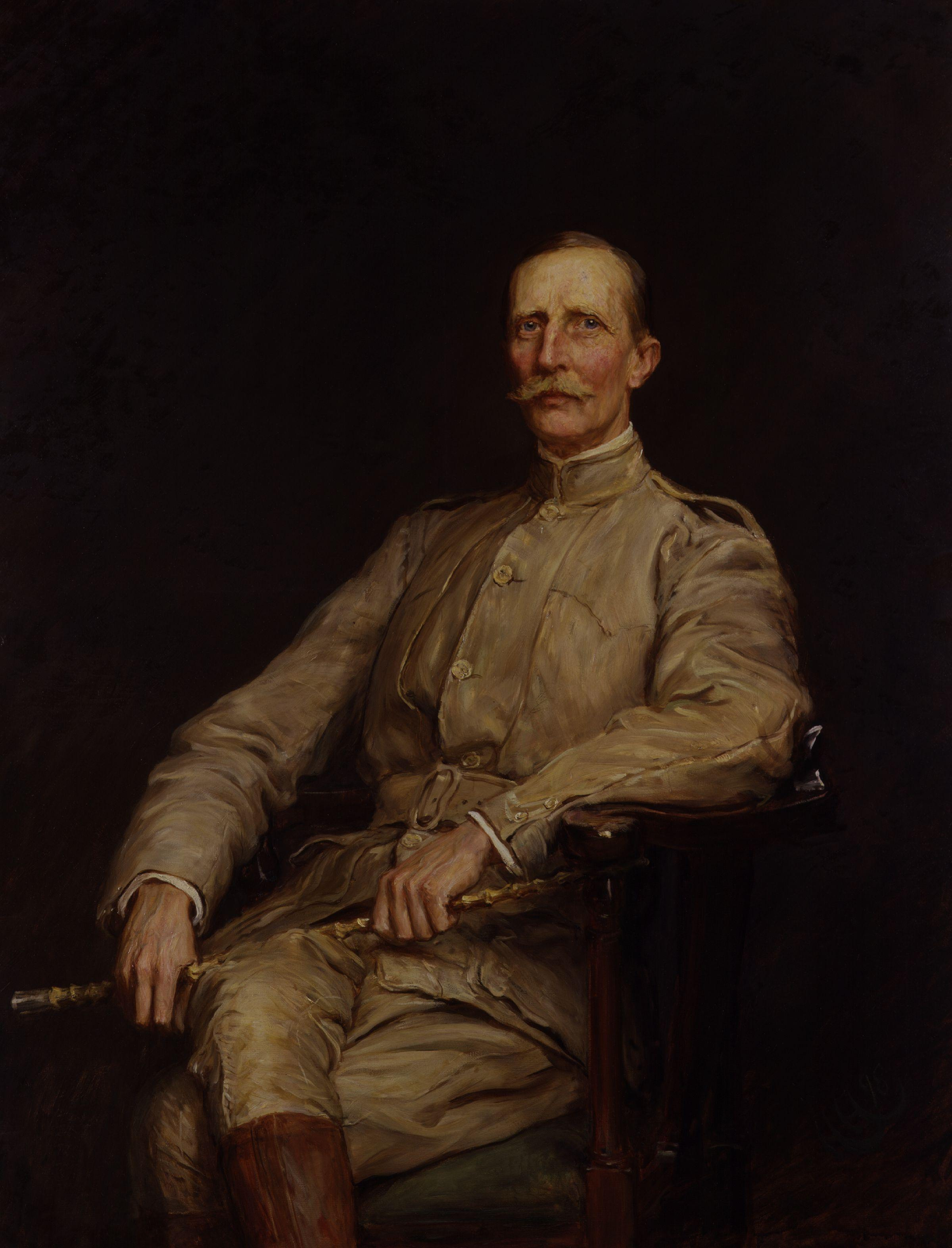 Sir George Dashwood Taubman Goldie, by Sir Hubert von Herkomer (died 1914), given to the National Portrait Gallery, London in 1931. All images in this batch have been confirmed as author died before 1939 according to the official death date listed by the NPG.